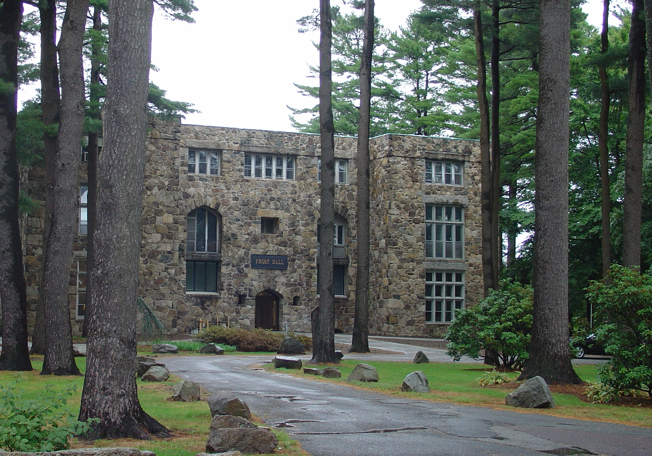 Gordon College Wenham, Massachusetts